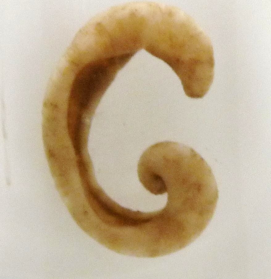 Epimenia verrucosa (Nierstrasz, 1902) at Osaka Museum of Natural History. Accepted name is Epimenia babai Salvini-Plawen, 1997